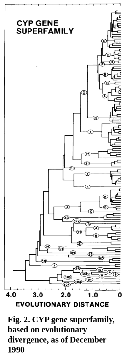 CYP gene superfamily based on evolutionary divergence, as of December 1990